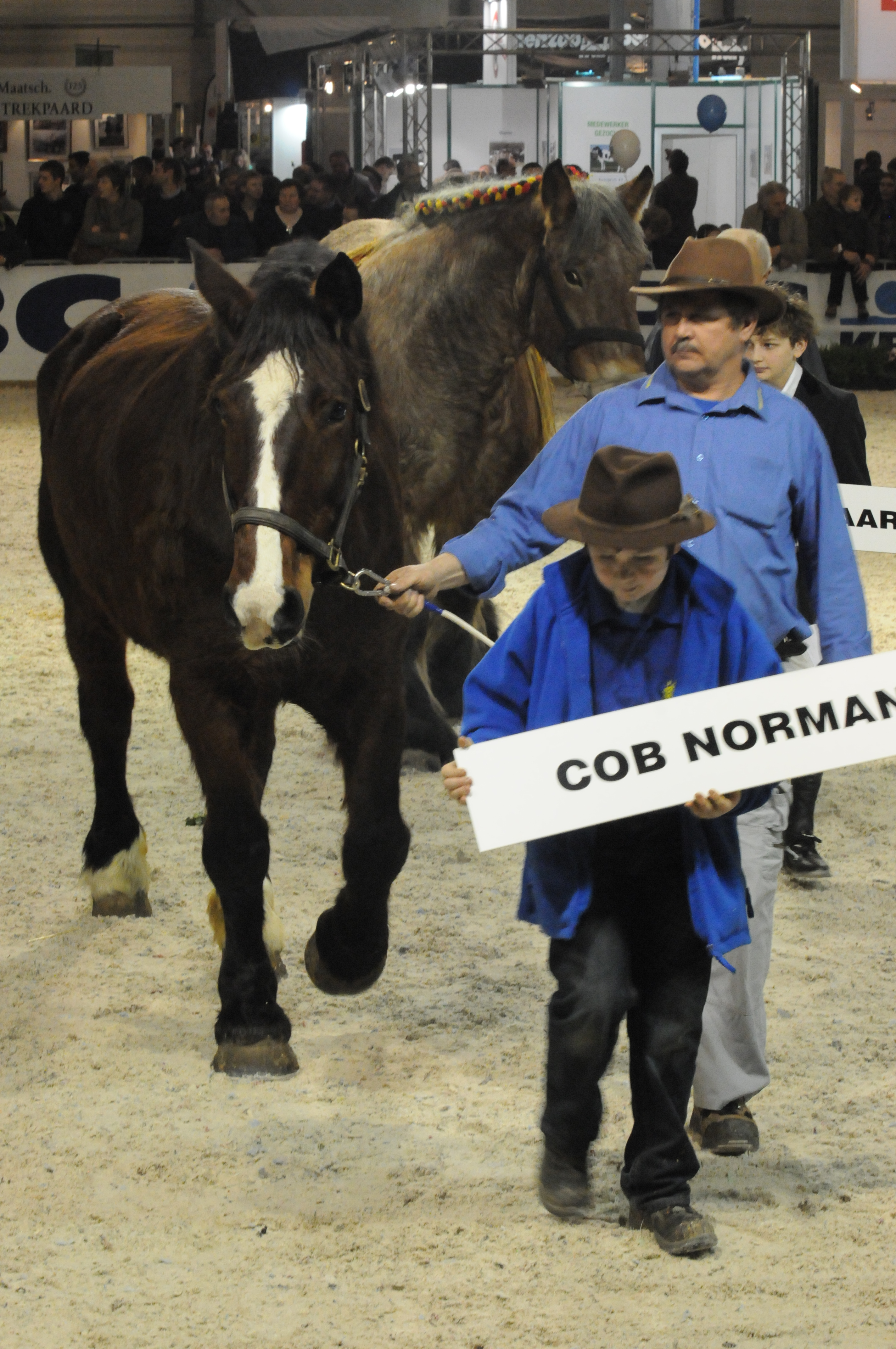 Cob Normand